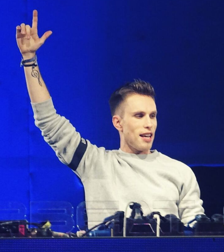 Nicky Romero playing live on Mainstage of Airbeat One 2017.